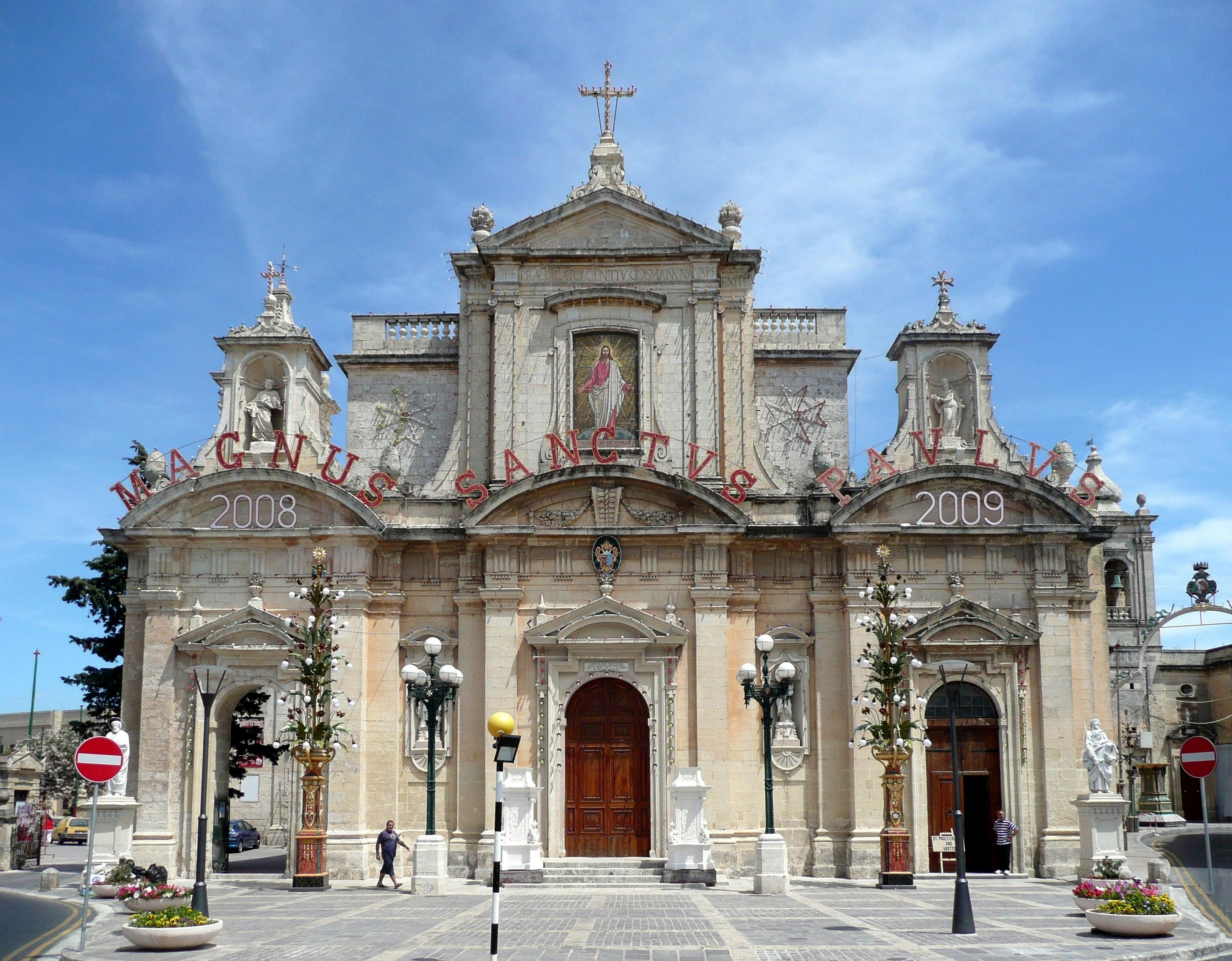 St. Paul's Church, Rabat, Malta